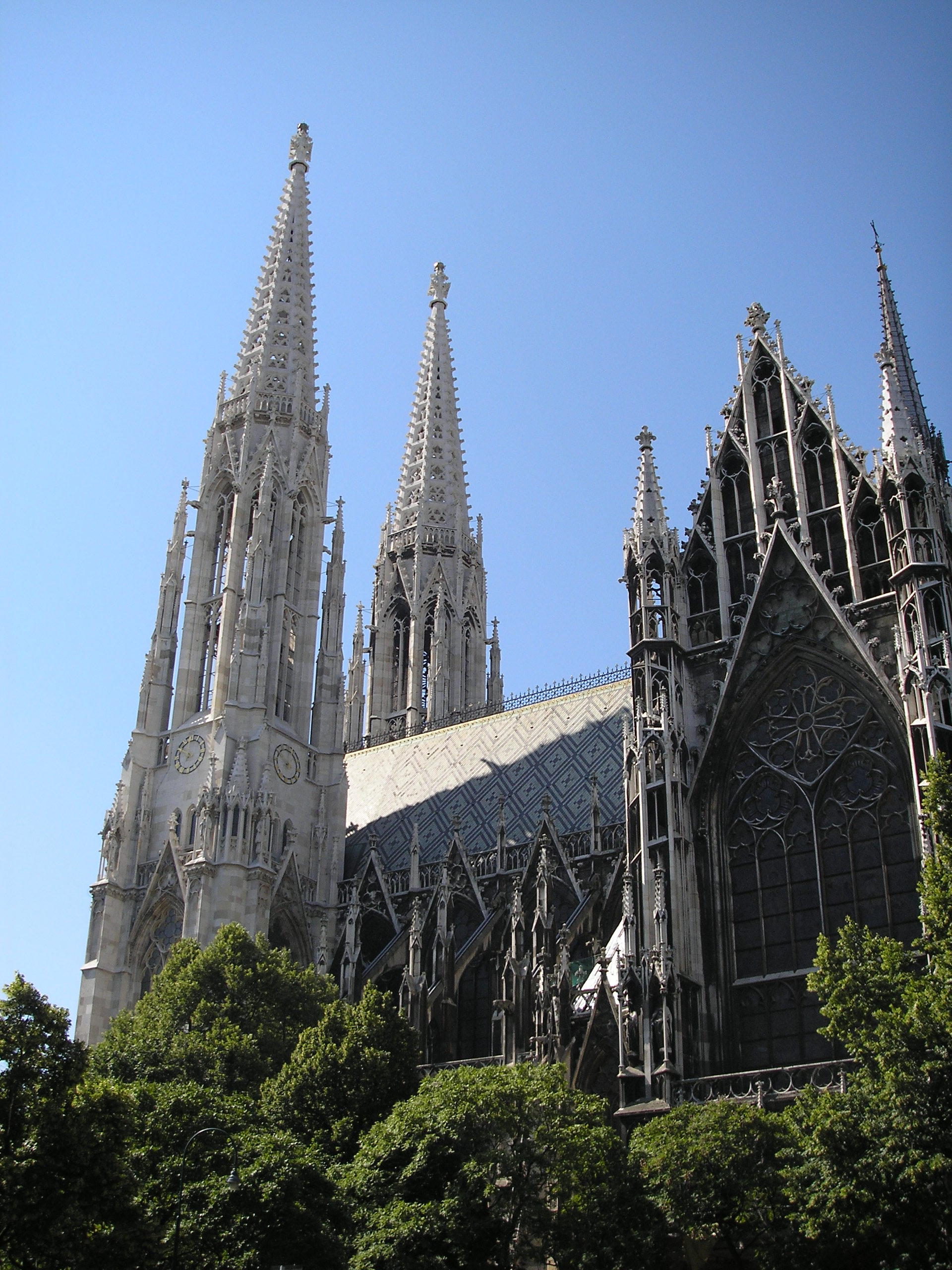 The Votivkirche in Vienna, built in the Neo-gothic style at the end of the 19th century in thanksgiving to the miraculous survival of emperor Franz Joseph I of Austria during an assasination attempt.